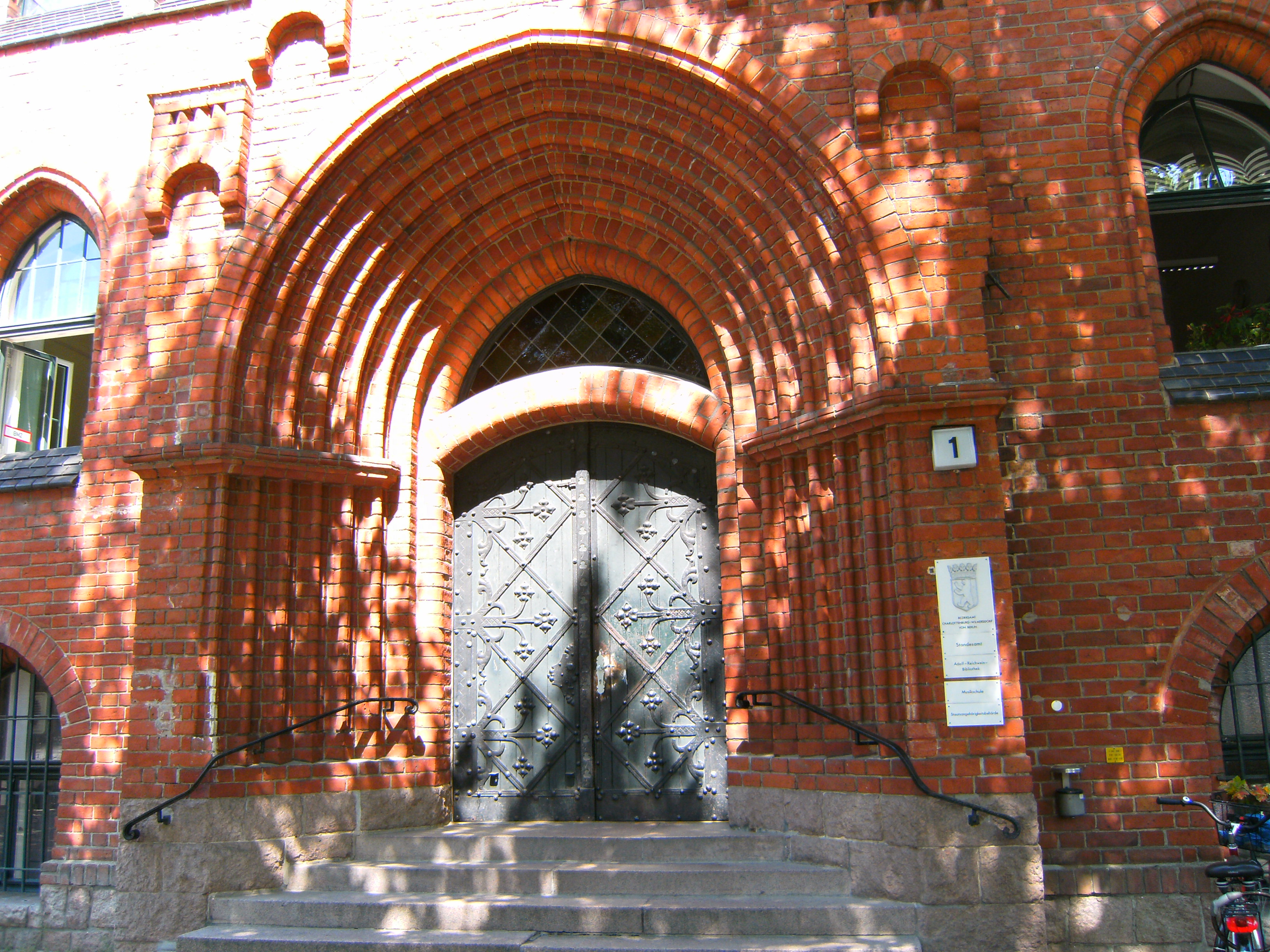 Townhall Schmargendorf (Rathaus Schmargendorf) in Berlin: entrance portal.